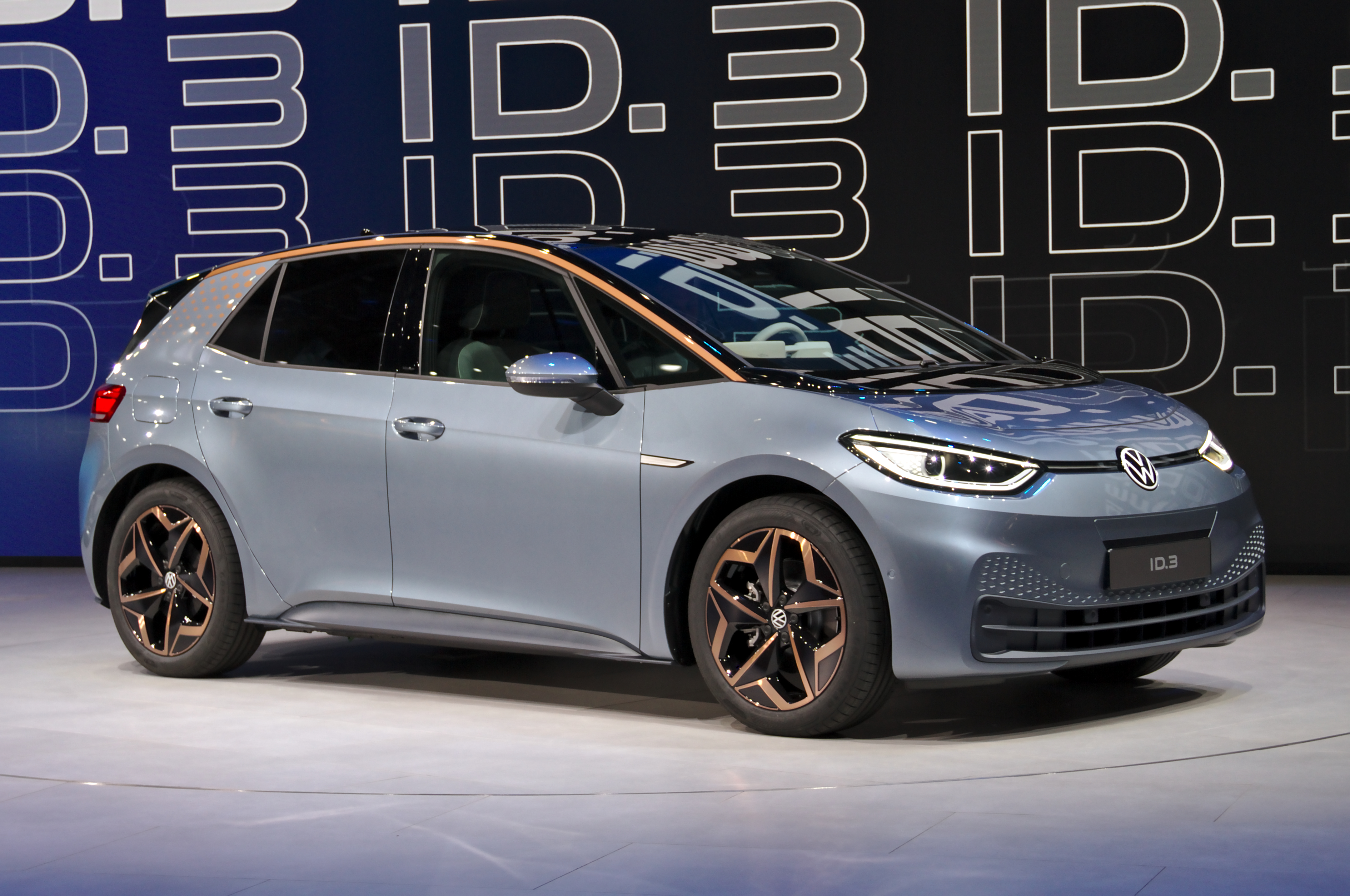 Volkswagen_ID.3 at IAA 2019